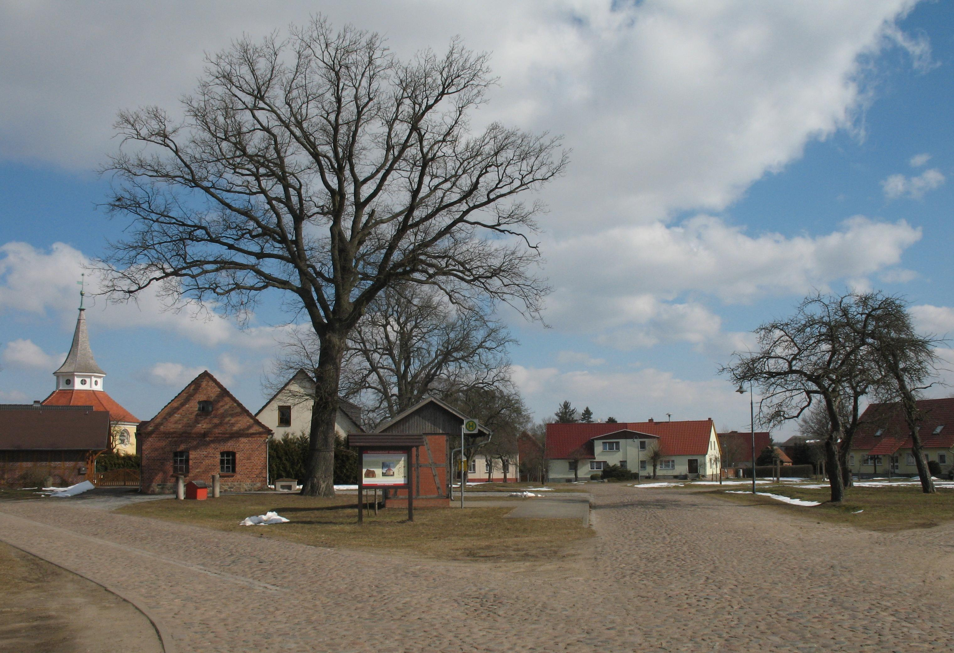 Rundling Heiligengrabe-Glienicke in Brandenburg, Germany